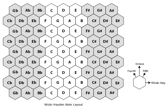 Diagram of the Wicki-Hayden note layout used on some button accordions and some isomorphic button-field MIDI instruments.